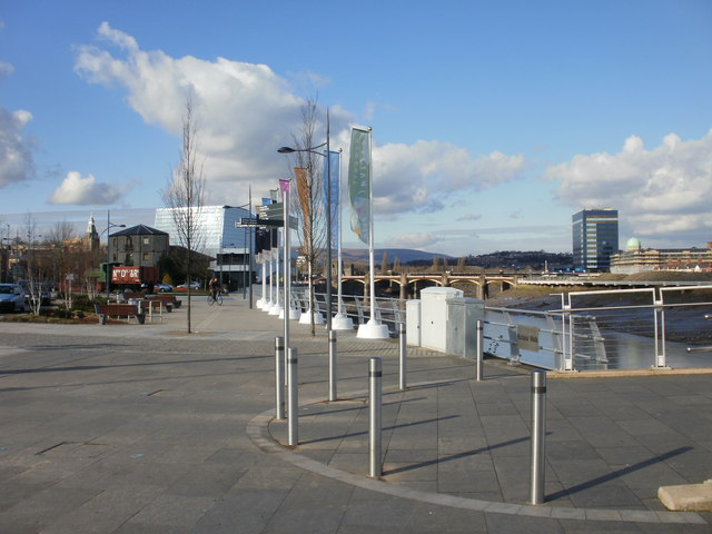 Kutaisi Walk, Newport A riverside walk on the west bank of the Usk, adjacent to the footbridge across the river. This view is looking northwestwards away from the footbridge. Kutaisi is the second largest city in Georgia (the country not the USA state). It has been twinned with Newport since 1989.